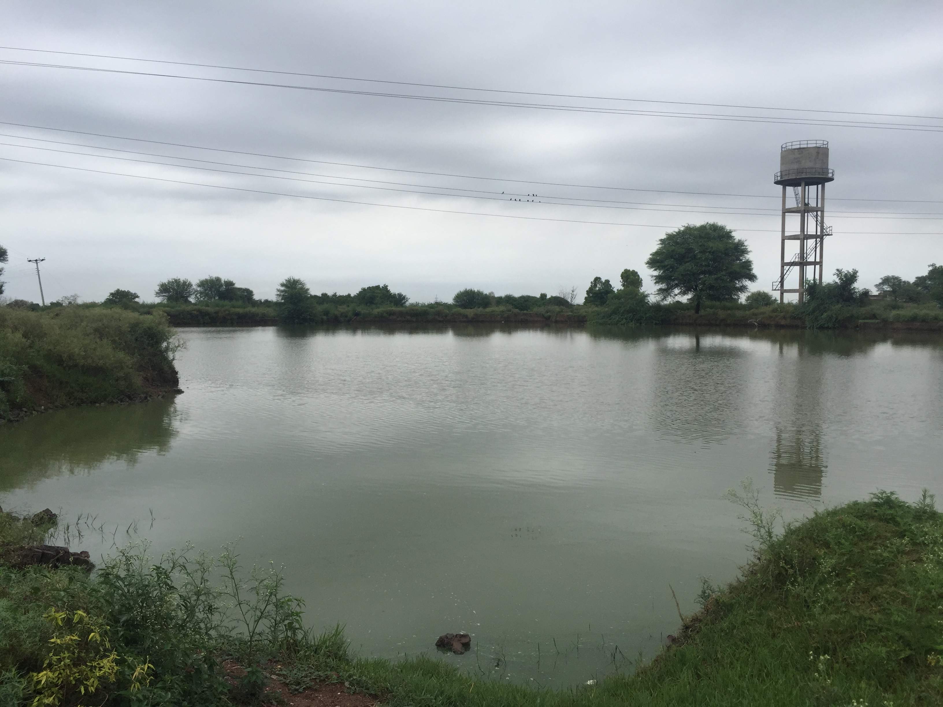 Sight Sadwal